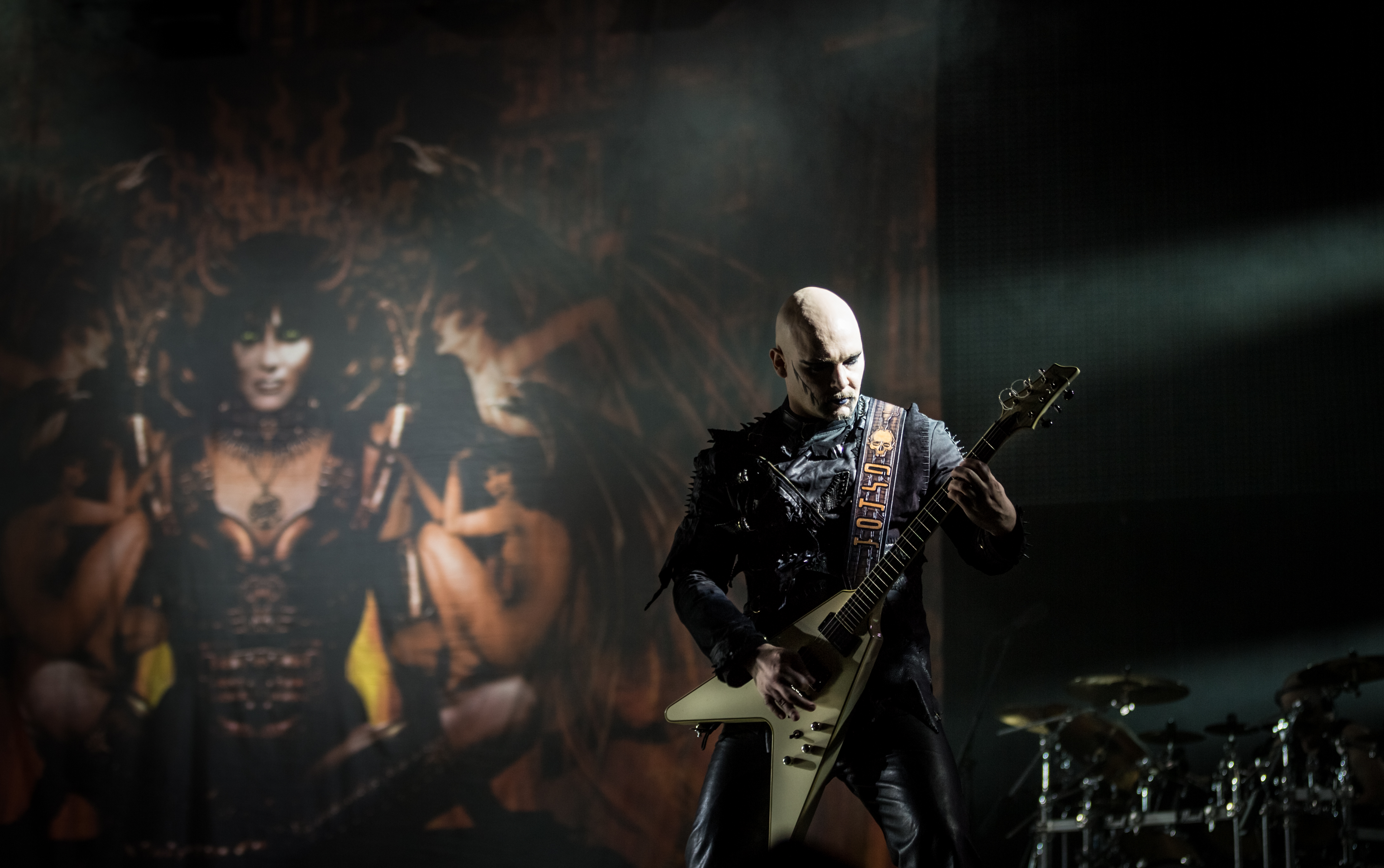 Cradle of Filth - Wacken Open Air 2015